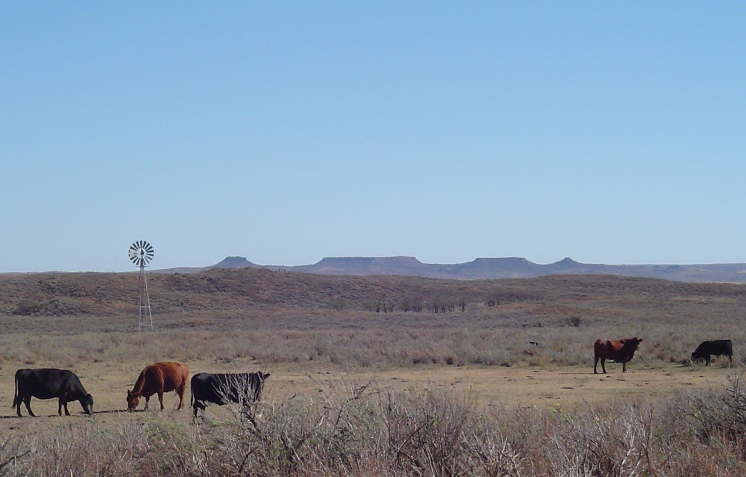 The Antelope Hills, with mesas in distance — of the High Plains region, in Roger Mills County, western Oklahoma. In Black Kettle National Grassland, and on the National Register of Historic Places in Oklahoma. Credits Denny Mingus, digital camera, I took this photo. Category:Images of Oklahoma